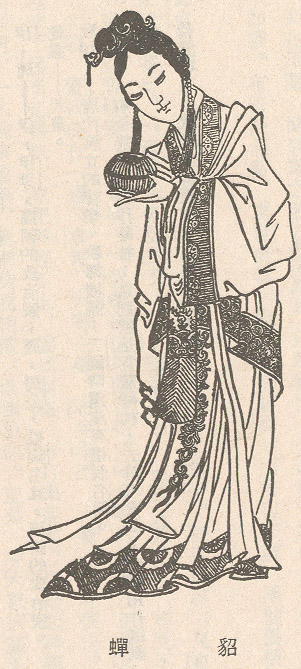 Portrait of Diaochan from a Qing Dynasty edition of the Romance of the Three Kingdoms.